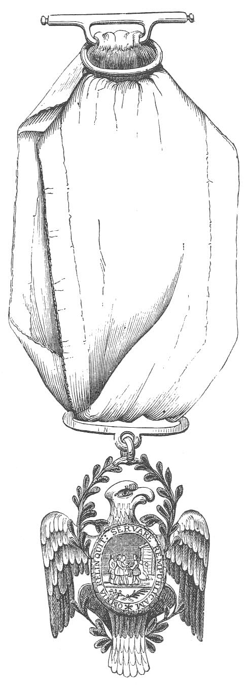 The Society of the Cincinnati Insignia